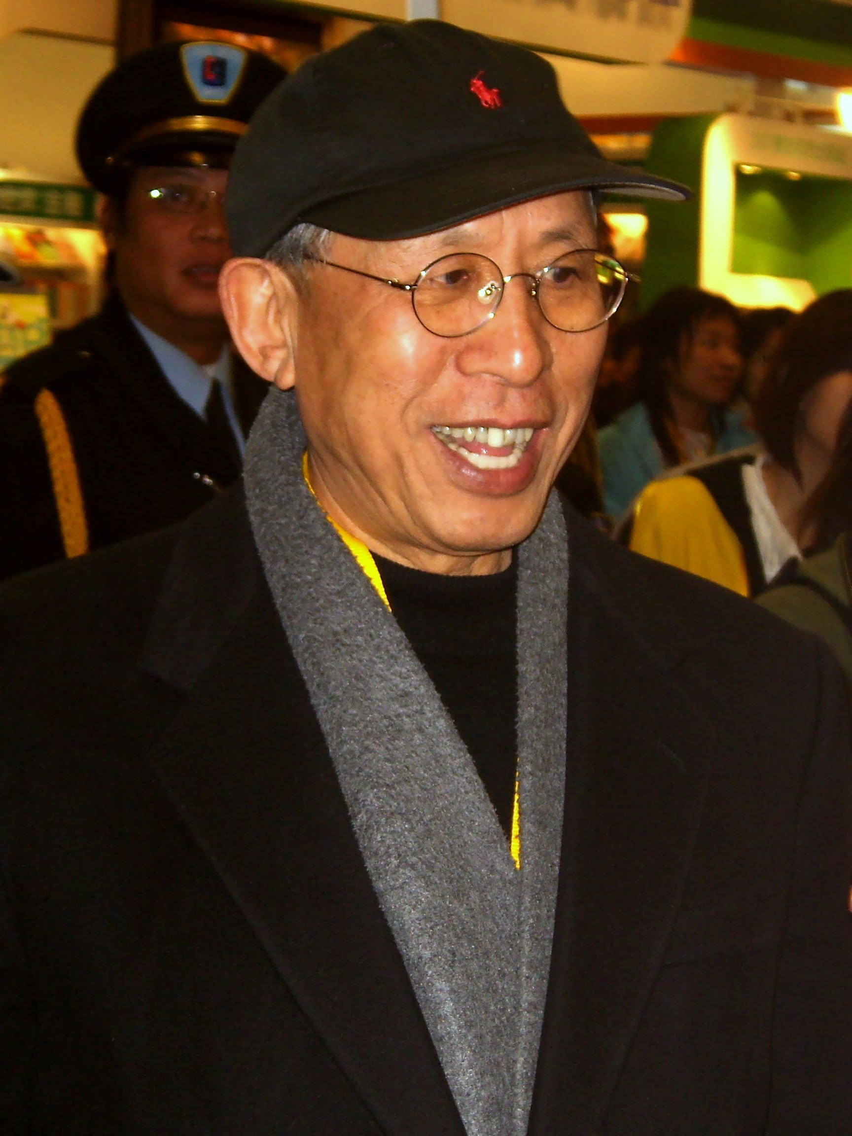 2008 Taipei International Book Exhibition - Opening Ceremony: Wang Tuoh.中文（台灣）: 出席2008年臺北國際書展開幕典禮的王拓。Bân-lâm-gú: Tī nn̄g-tshing khòng peh nî Tâi-pak Kok-tsè Tsu-tián khui-bōo tián-lé ê Ông Thok.